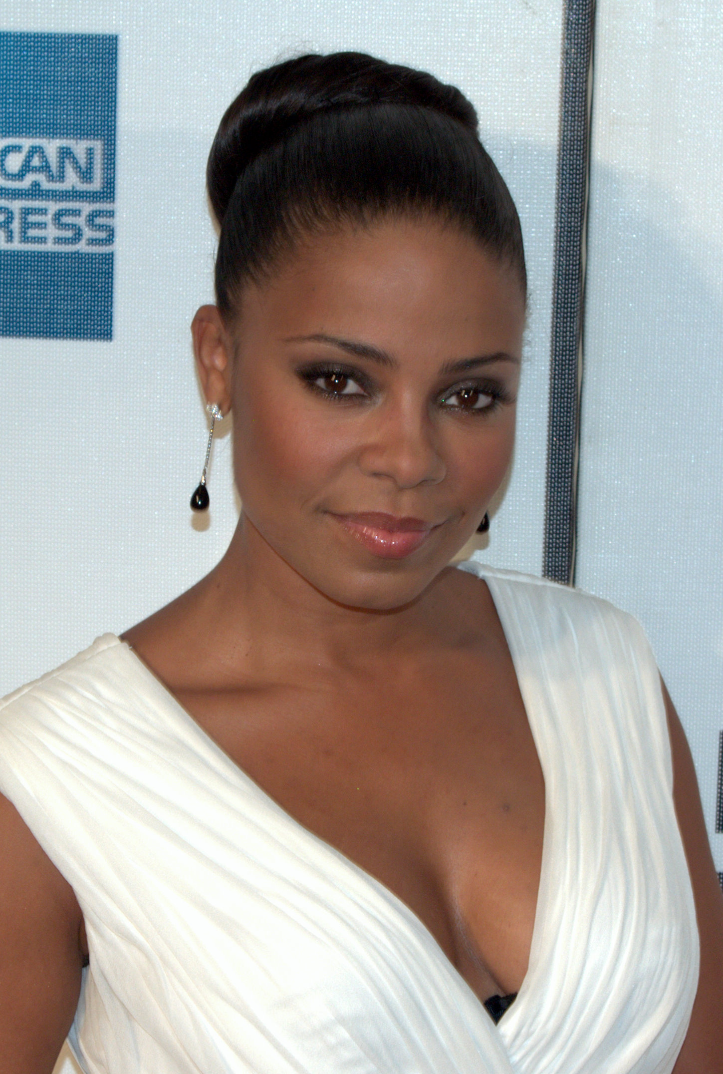 Sanaa Lathan at the 2009 Tribeca Film Festival premiere of Wonderful World. Photographers blog post about the event and this photo.